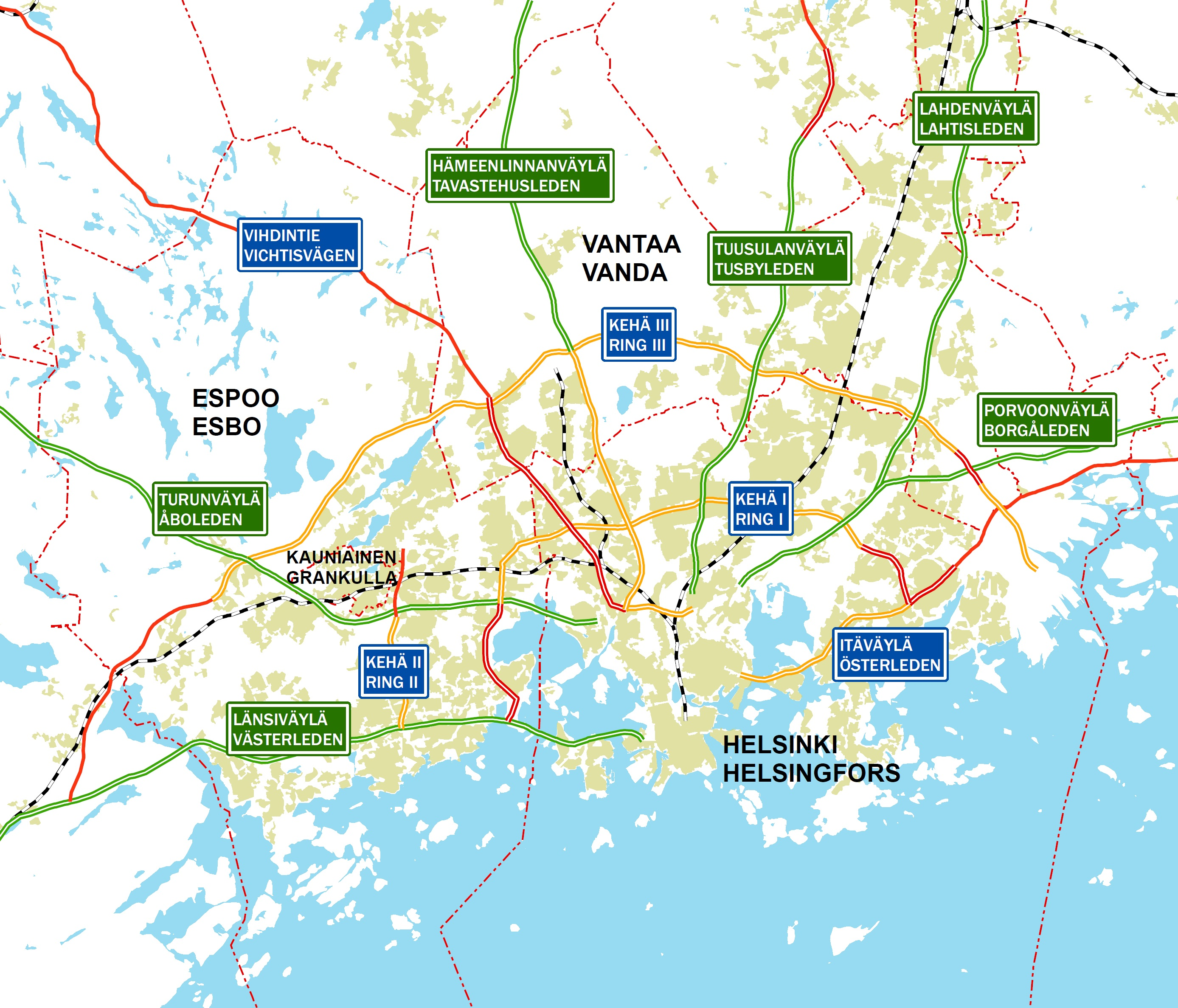 Map of the main roads in the Helsinki region. Green roads = motorways, yellow roads = 2+2 roads with interchanges, red roads = roads with traffic lights (2+2 or 1+1).